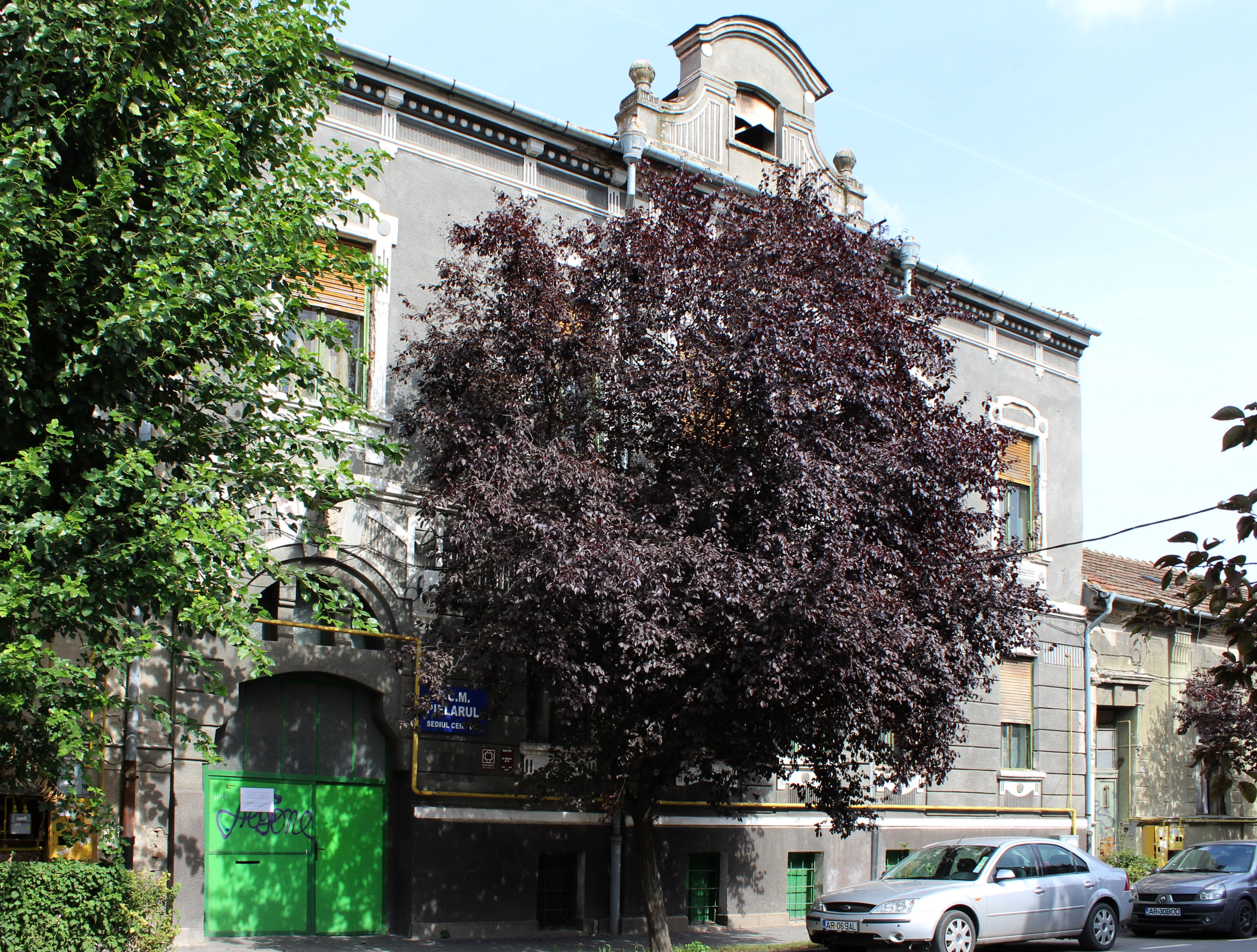 House, str Elena Ghiba Birta no 16, Arad, Romania, built 1907.